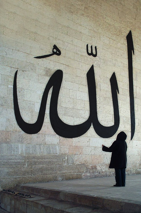 Edirne old Mosque, Edirne Eski Camii. Woman looking at large writing of the word Allah in Arabic script Previous nominee of “Valued Image” on commons. Look here to see the discussion and why the nomination failed.